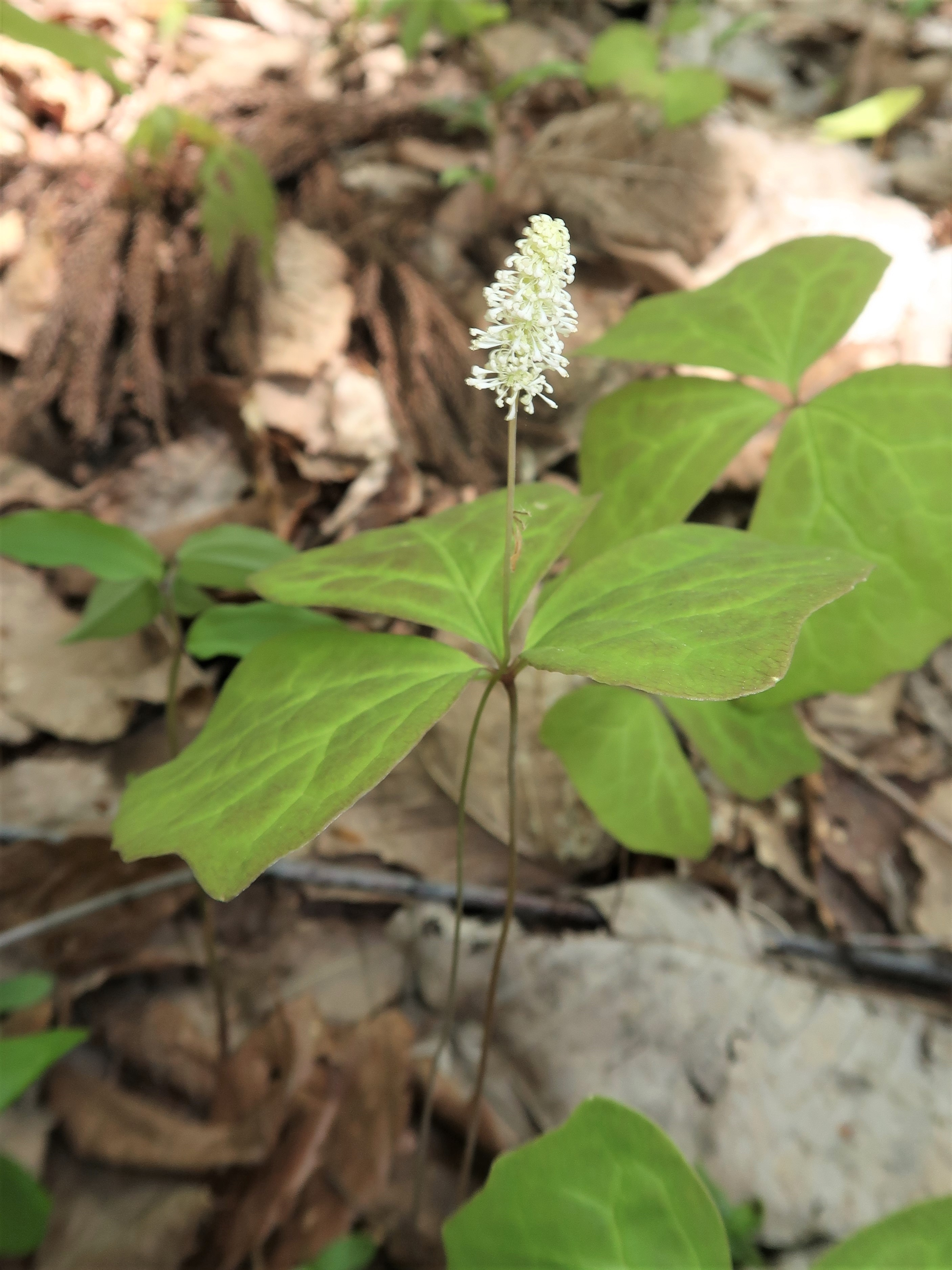 Achlys japonica, Yamagata City Wild Plants Garden, Japan